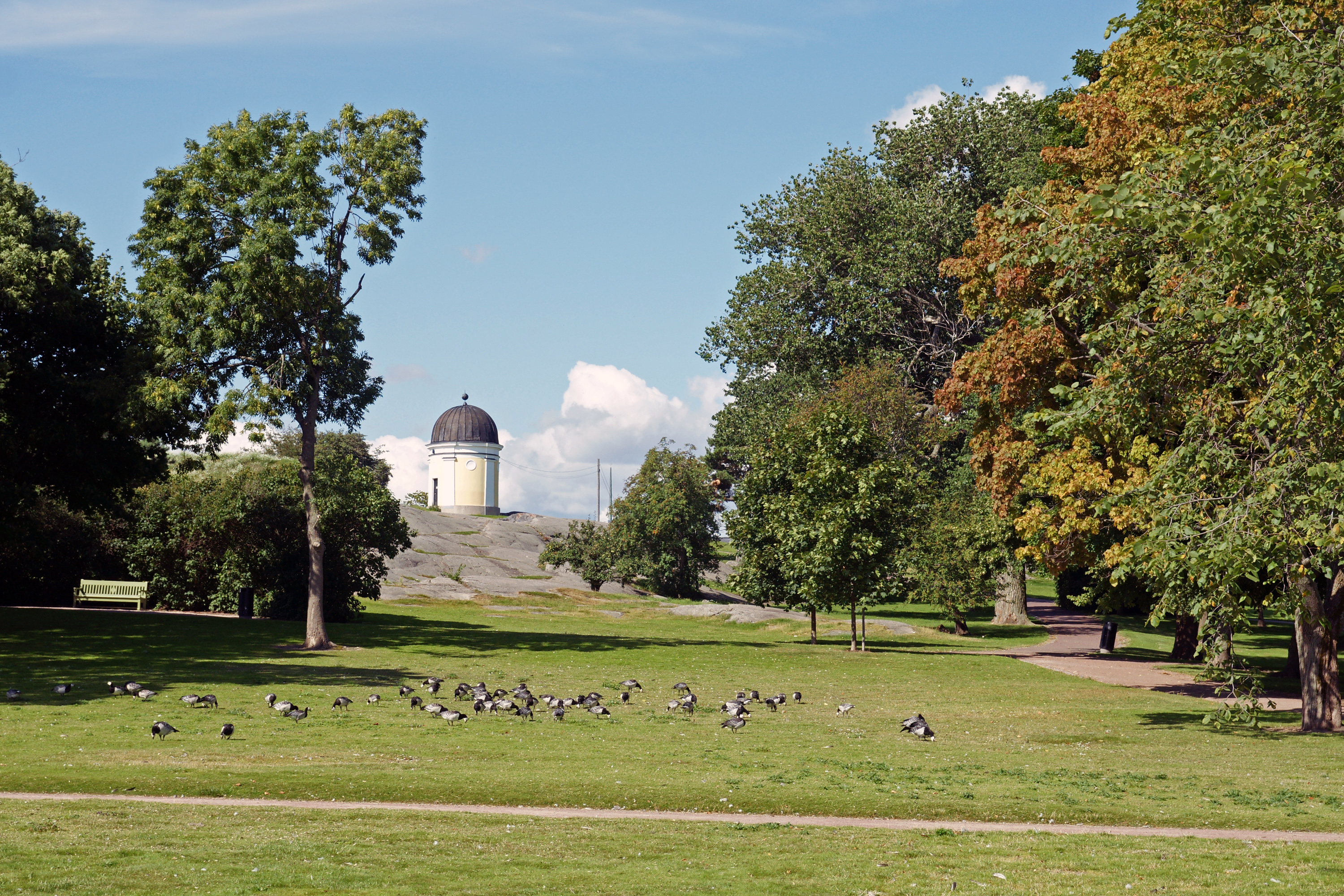 Kaivopuisto in Helsinki.